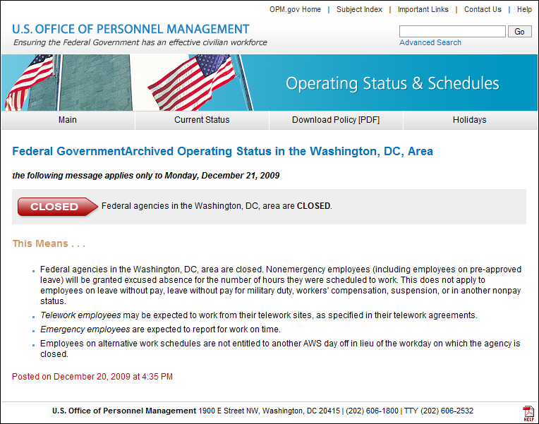 Screenshot of notice of US Federal Government closure in the Washington DC area due to North American blizzard of 2009.